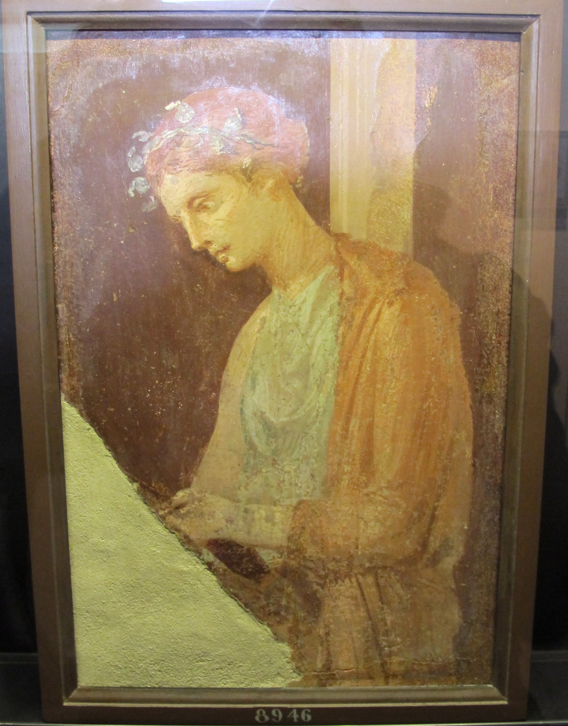 A Roman fresco of a red-haired maiden reading a text, Pompeian Fourth Style (60-79 AD), Pompeii, Italy, Ancient Libraries Exhibition, inventory no. 8946 (Colosseum, 2014)